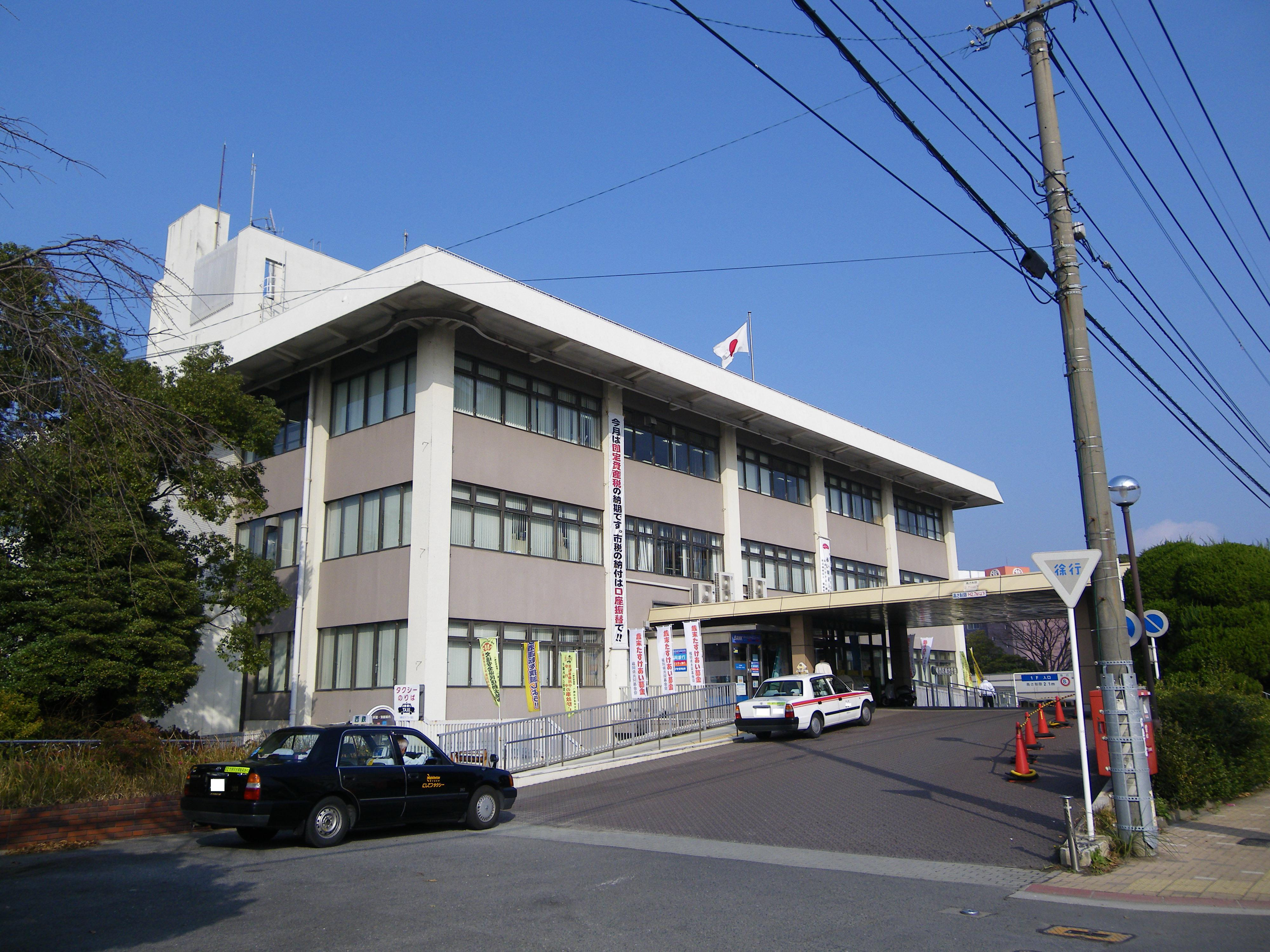 The former office building of Yahata-nishi ward, Kitakyusyu.